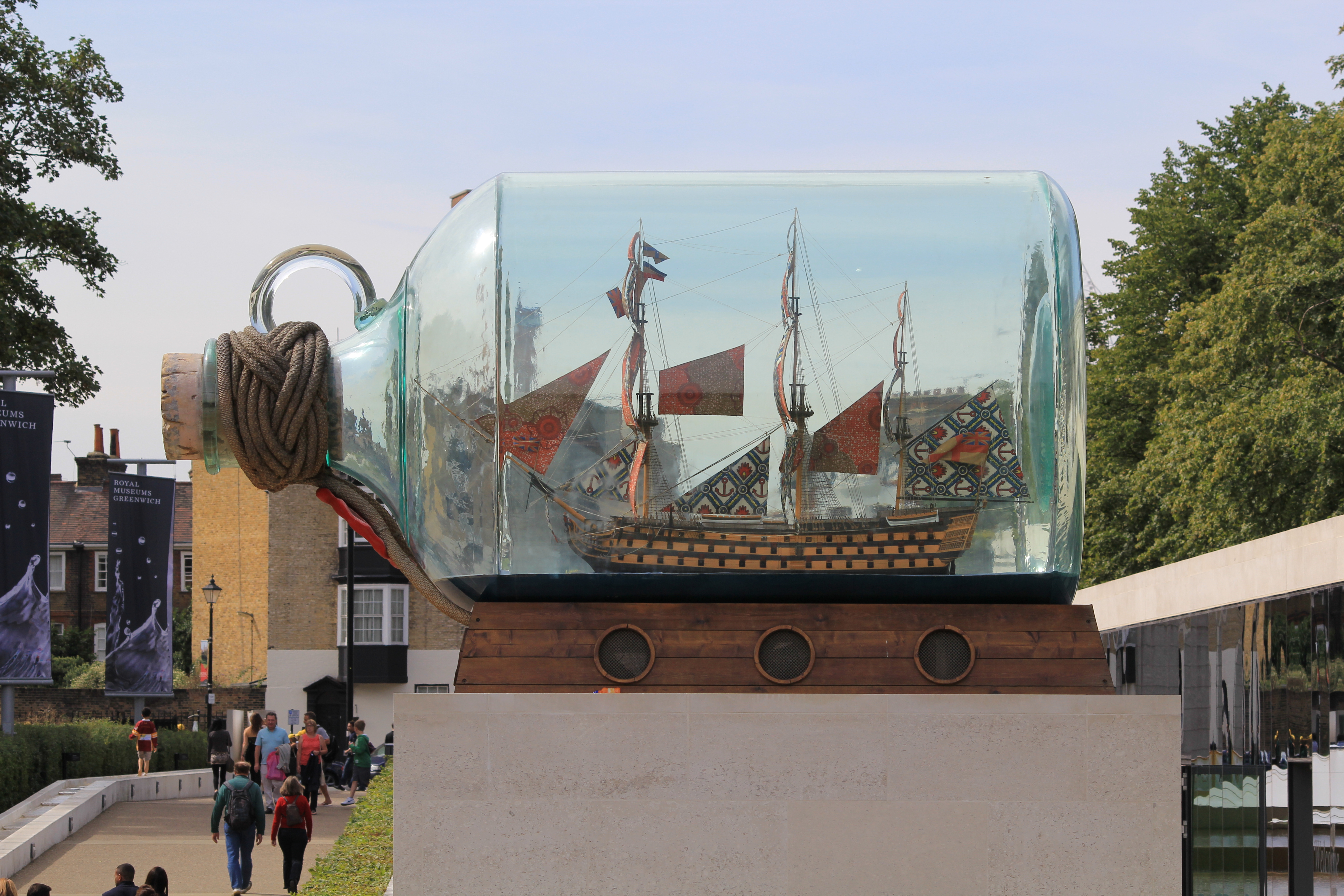 National Maritime Museum